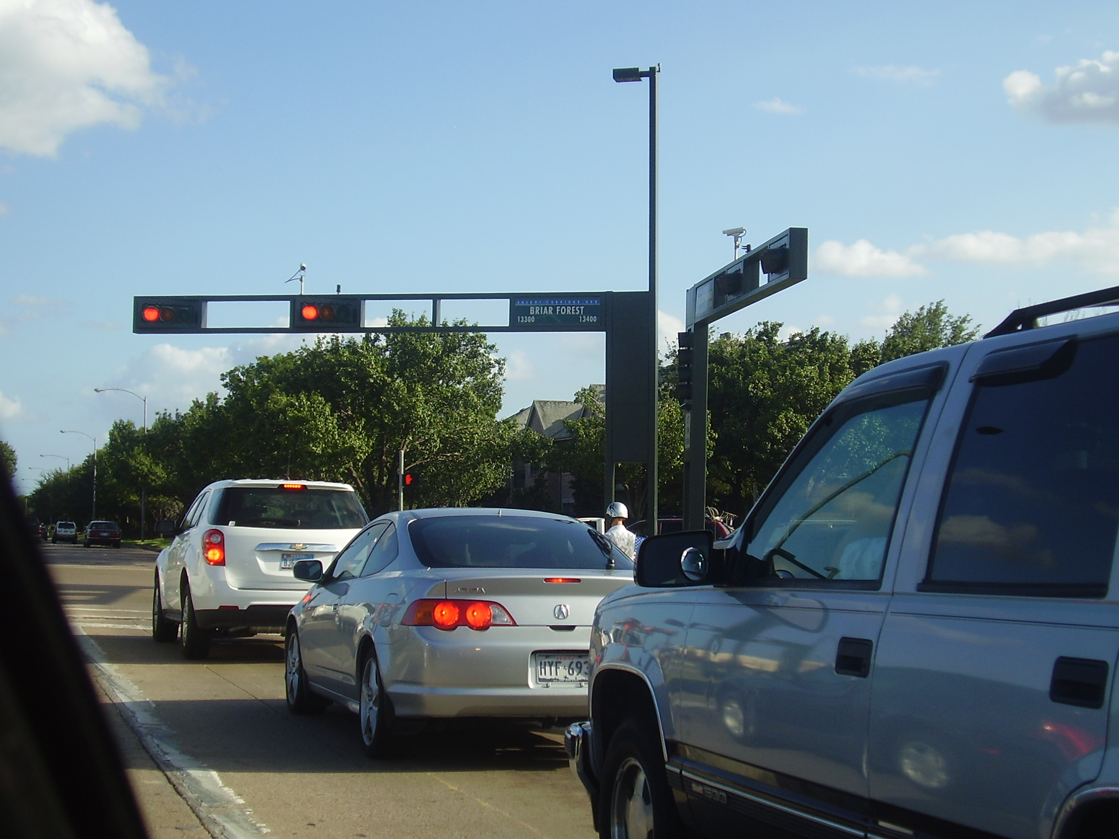 Energy Corridor street signs